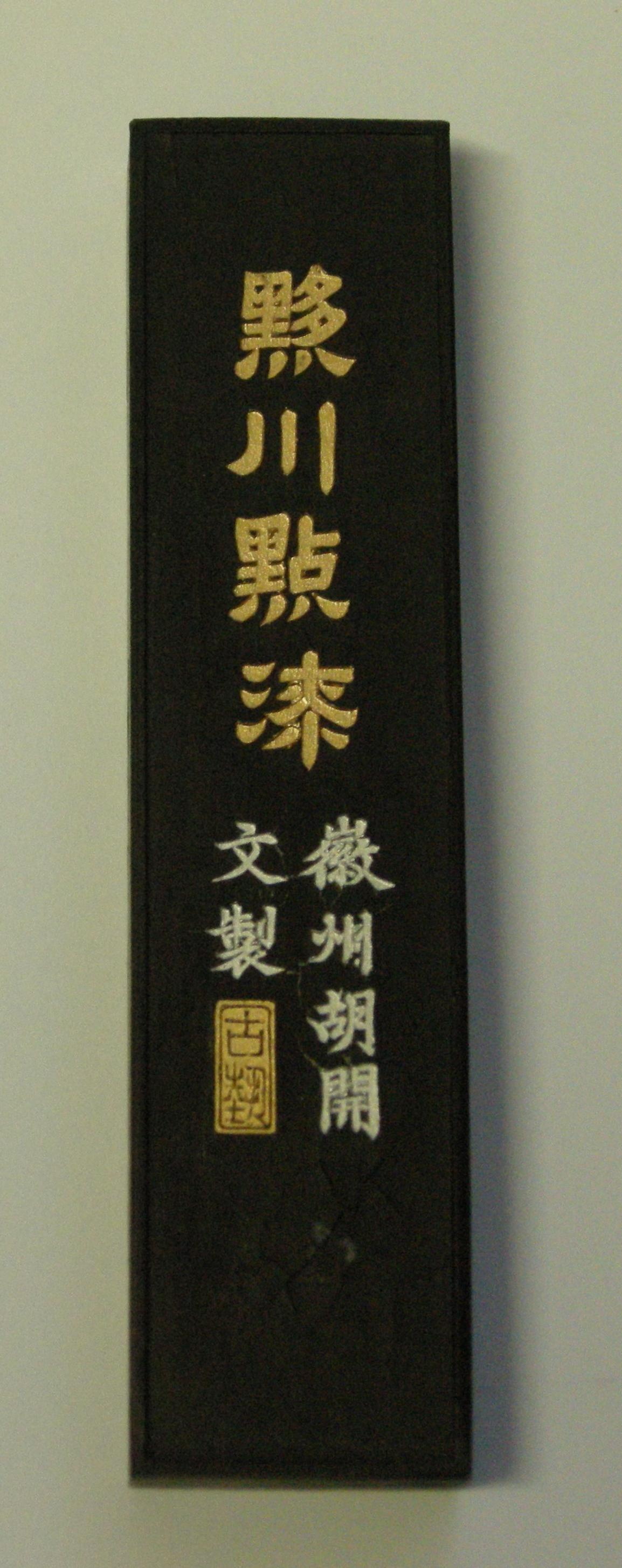 The inkstick is used to make ink. By grinding the inkstick over the grinding plate of an inkstone small particles come off the inkstick and will mix with a small amount of water, this way ink is made in a traditional manner to paint or calligraph with.